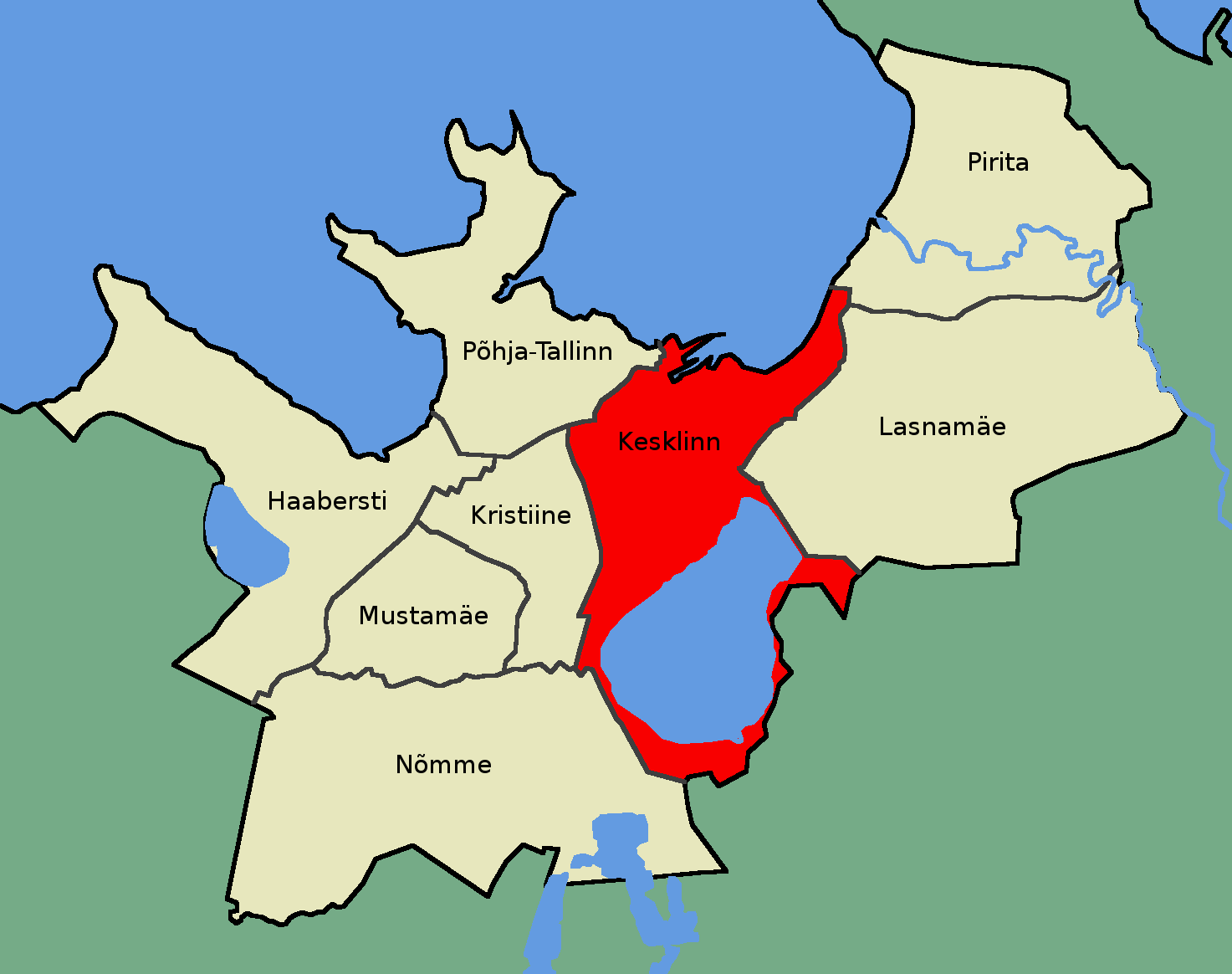 Tallinn (Estonia), the city district of Kesklinn, with legend